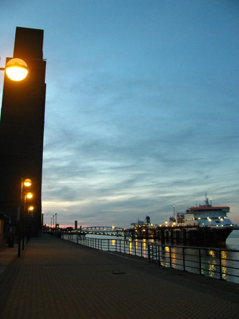 Woodside Waterfront